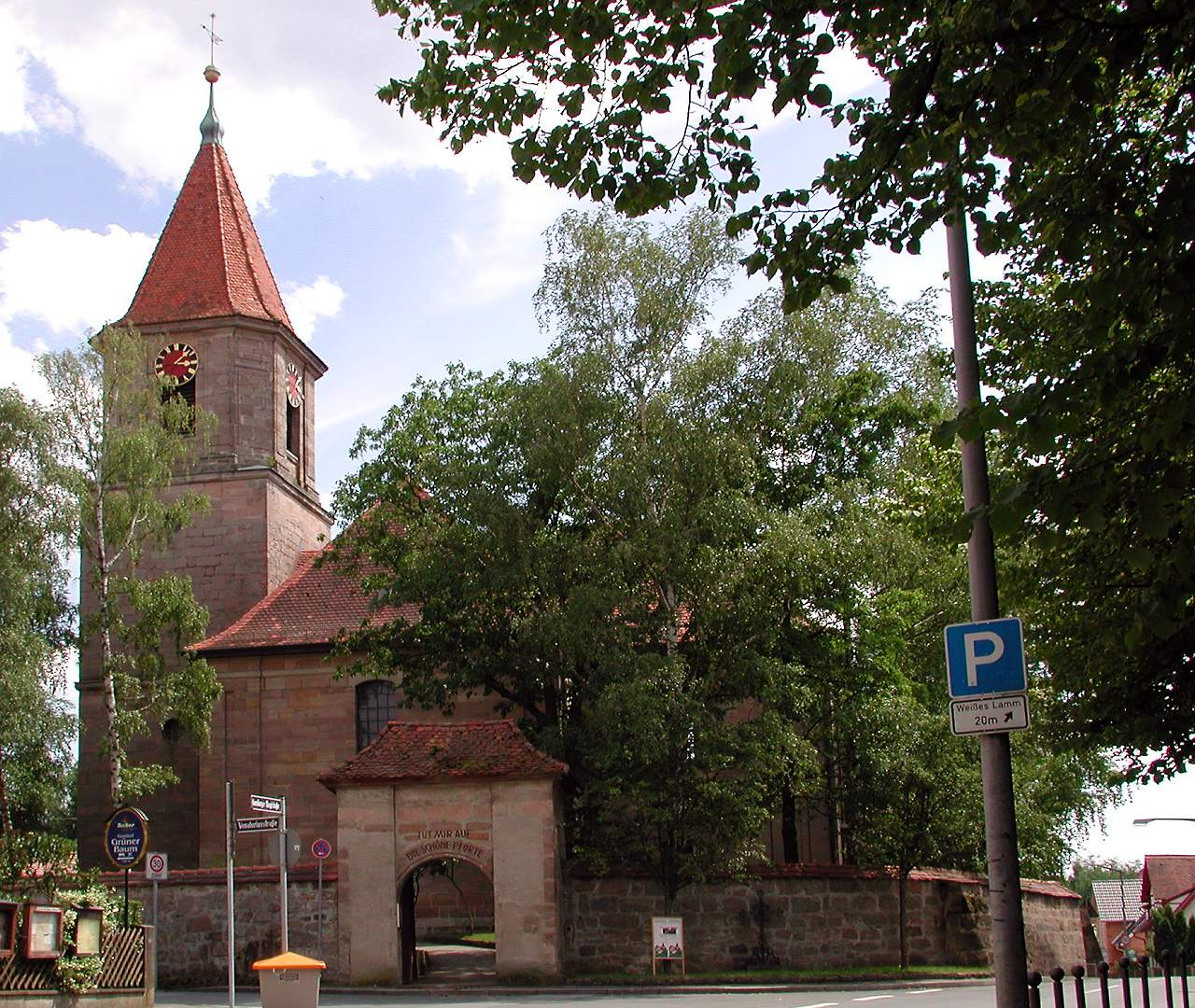 Kornburg, St Nicholas Lutheran Church from north-west.